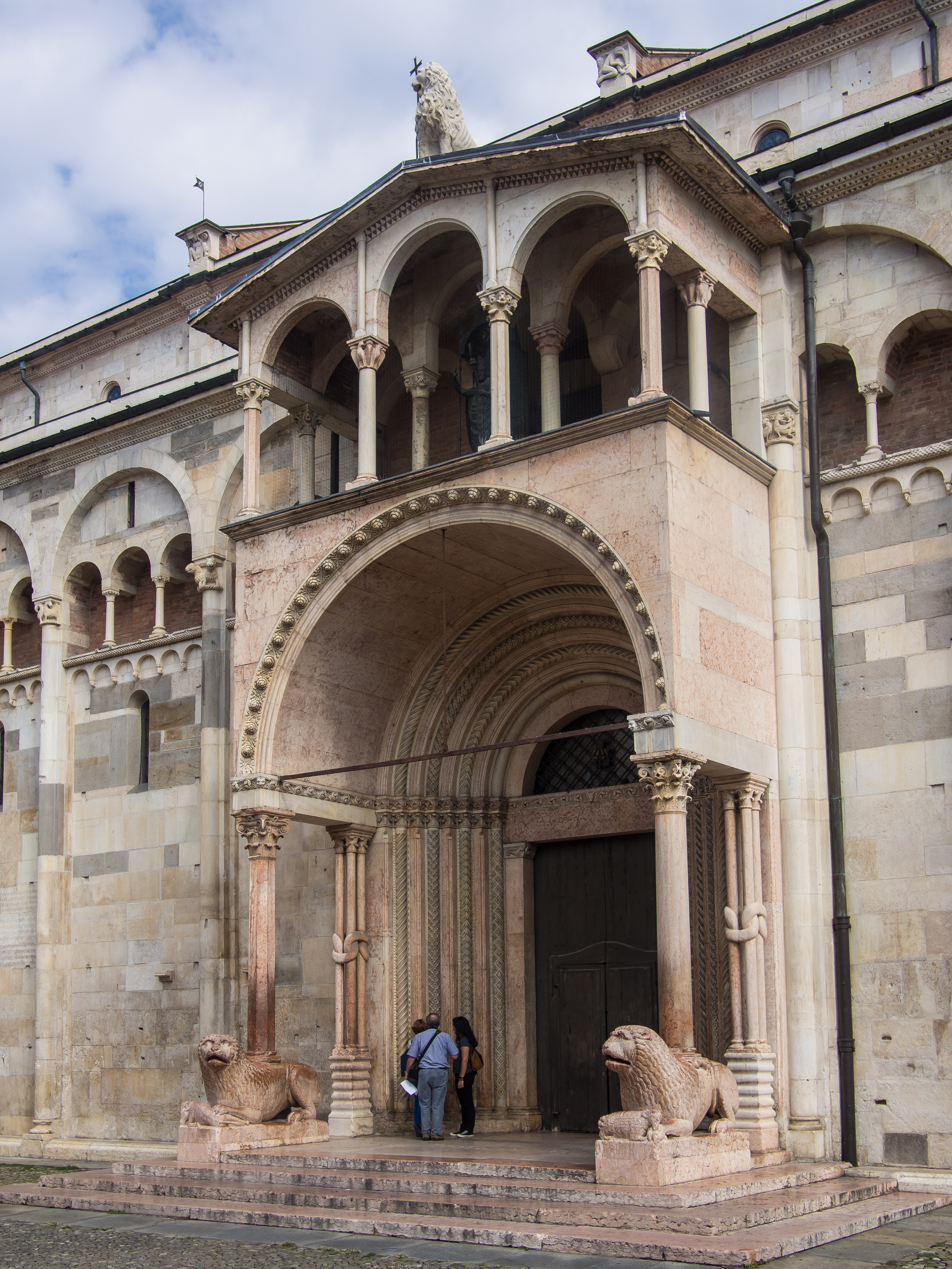 Modena Cathedral main gate